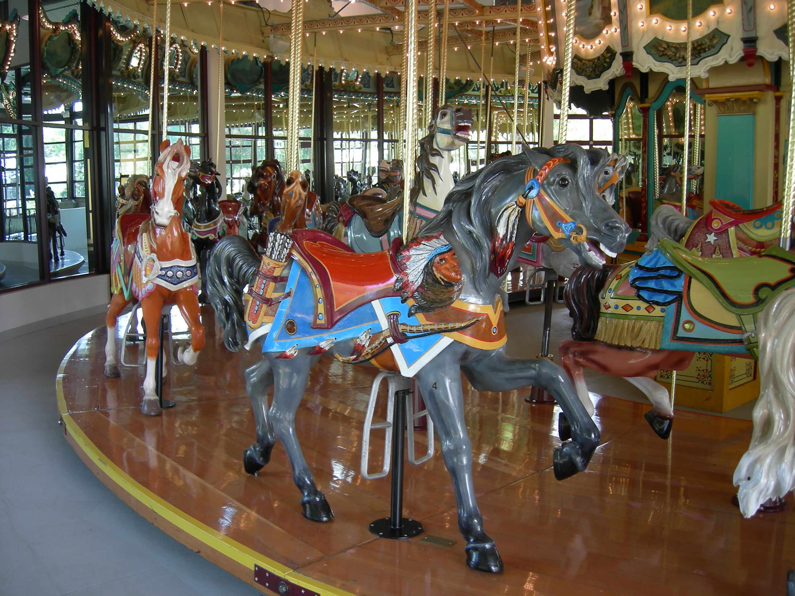 Carousel, Woodland Park Zoo, Seattle, Washington. Hand-carved carousel originally built for the Cincinnati Zoo in 1918 by the Philadelphia Toboggan Company, head carver John Zalar. In the 1970s, the carousel was moved to Santa Clara, California, where it operated into the 1990s. It was donated to WPZ by the Alleniana Foundation, and opened May 1, 2007 in a new pavilion on the zoo's North Meadow.